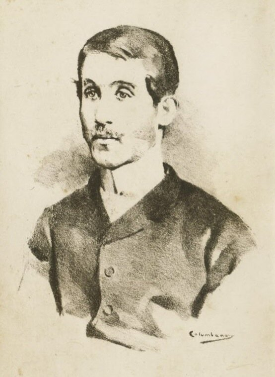 Cesário Verde